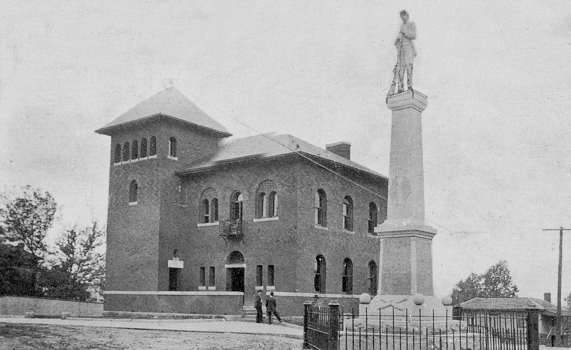 Post Office and Confederate statue. [1] Digital Collection: North Carolina Postcards Date: 1912 Location: Reidsville (N.C.); Rockingham County (N.C.); Collection in Repository Durwood Barbour Collection of North Carolina Postcards (P077); collection guide available online at Usage Statement